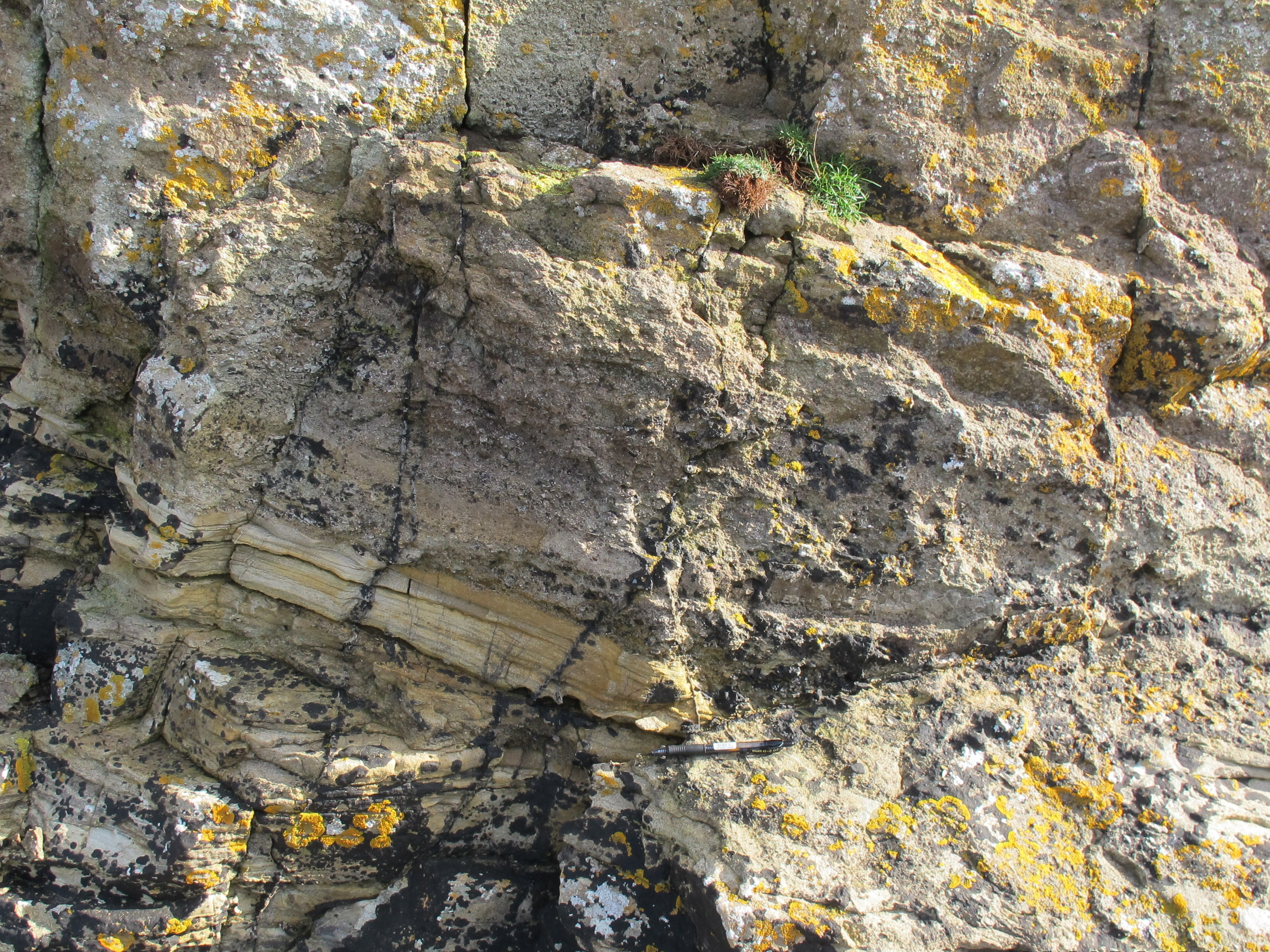 Base of tuff layer within Lower Eday Sandstone at Houton Head, Mainland Orkney, probably equivalent to the Hoy Volcanic Member